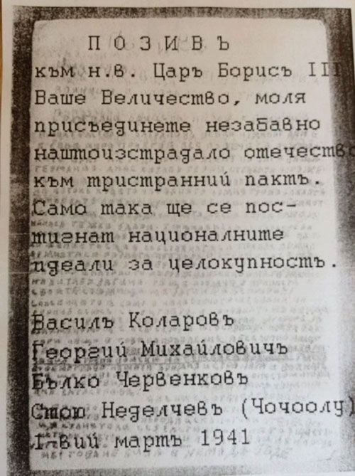 Communist leaflet to Tsar Boris III with request for Bulgaria's immediate accession to the Tripartite Pact. Signed formally by Vasil Kolarov, Georgi Dimitrov, Valko Chervenkov and Stoyu Nedelchev.